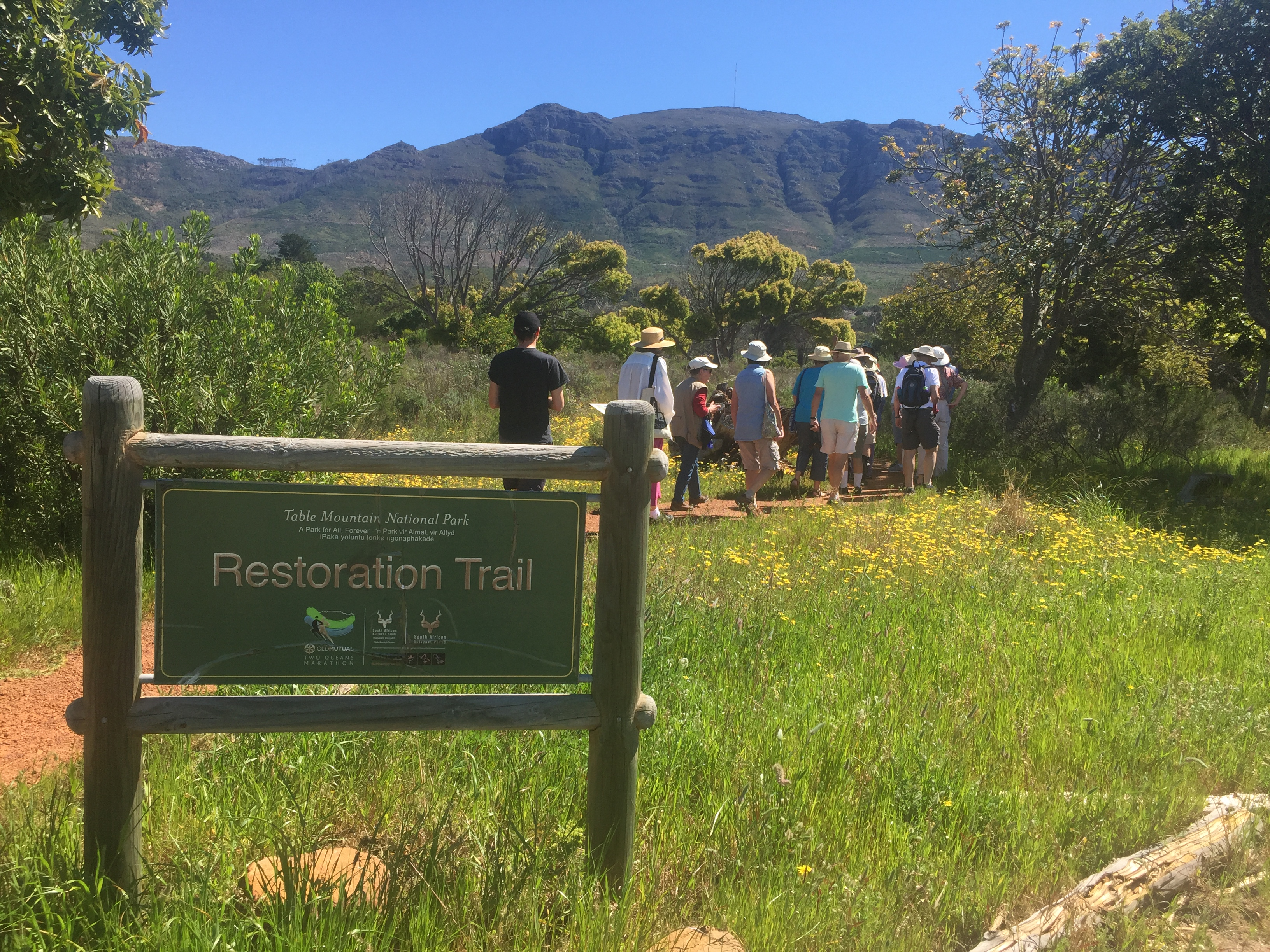 A walking route at Tokai Park